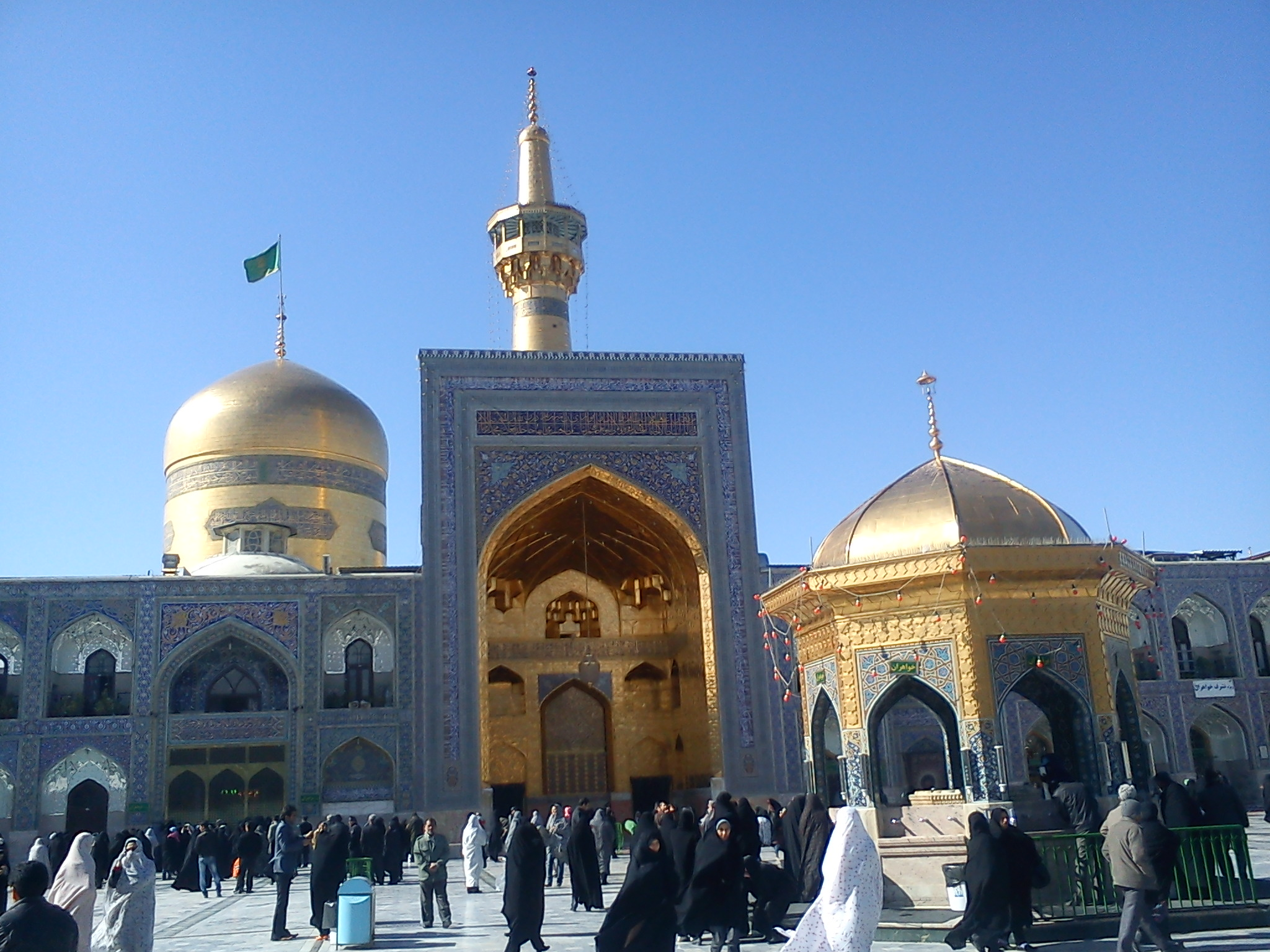 emam REZA